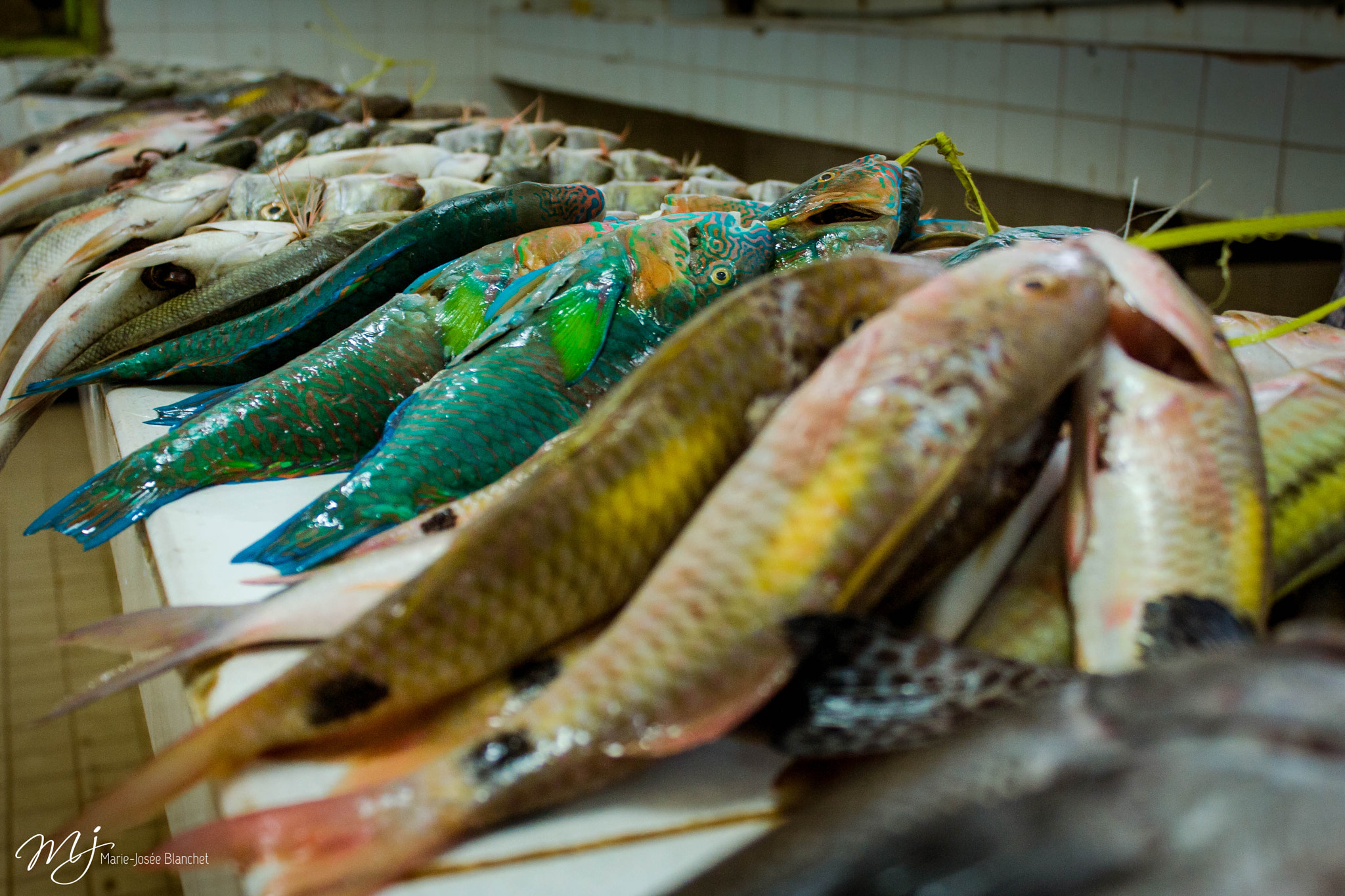 500px provided description: Local Nadi fish & produce market in Fiji [#Fish ,#Market ,#Fiji ,#Parrot ,#Nadi ,#Fresh ,#Tropical]